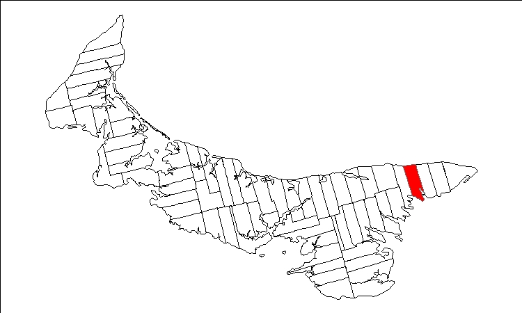 Public domain map of Prince Edward Island created by User:Plasma east with data courtesy of Geogratis, modified to show townships. Released under GFDL (self).